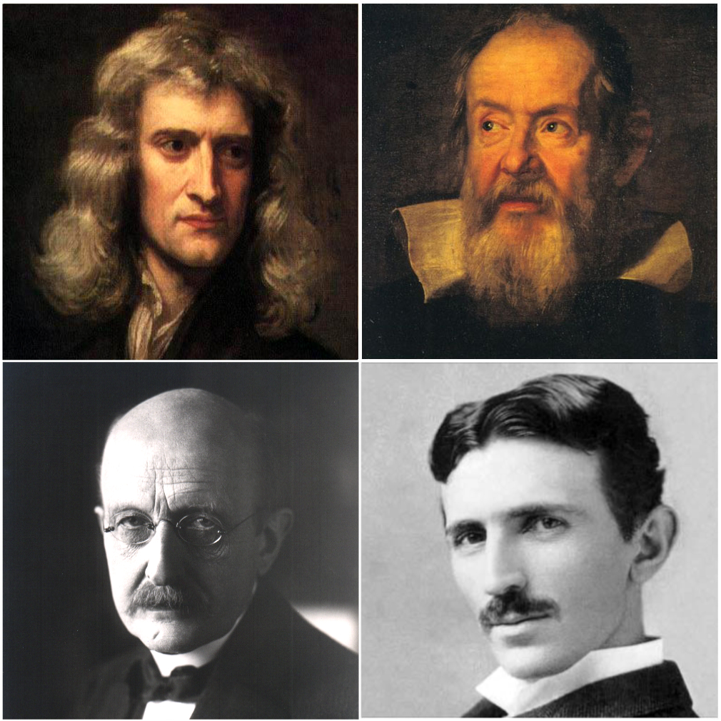 Christian Scientists . Anyone can use these original photos themselves among others and make another collage of (Christians) themselves or remix as they wish, as long as they give the correct source and usage/Copyright given. Dont delete the photos, if one becomes unusable due to copyright, please dont delete, just replace the photo or i will.